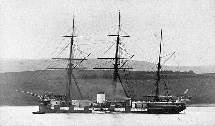 Photograph of HMS Wivern (British Turret Ironclad, 1865-1922). At anchor in the Hamoaze River, off Plymouth, England, in 1865. The original print is mounted on a carte de visite. Note the lowered bulwarks abreast her two turrets, hammocks stowed around the turret tops to form rifle pits, and her tripod fore and main masts. She was reportedly the first ship fitted with tripod masts, which eliminated standing rigging, thus increasing the arc of her turrets' gunfire. Ordered by the Confederate States of America government in 1862 as one of two sisters, her true ownership was kept secret under the "cover story" that she was to become an Egyptian warship named El Monassir. Upon delivery to the Confederacy, she was to be named Mississippi. Strong diplomatic pressure by the United States led the British government to seize the two ships in October 1863, while they was fitting out.